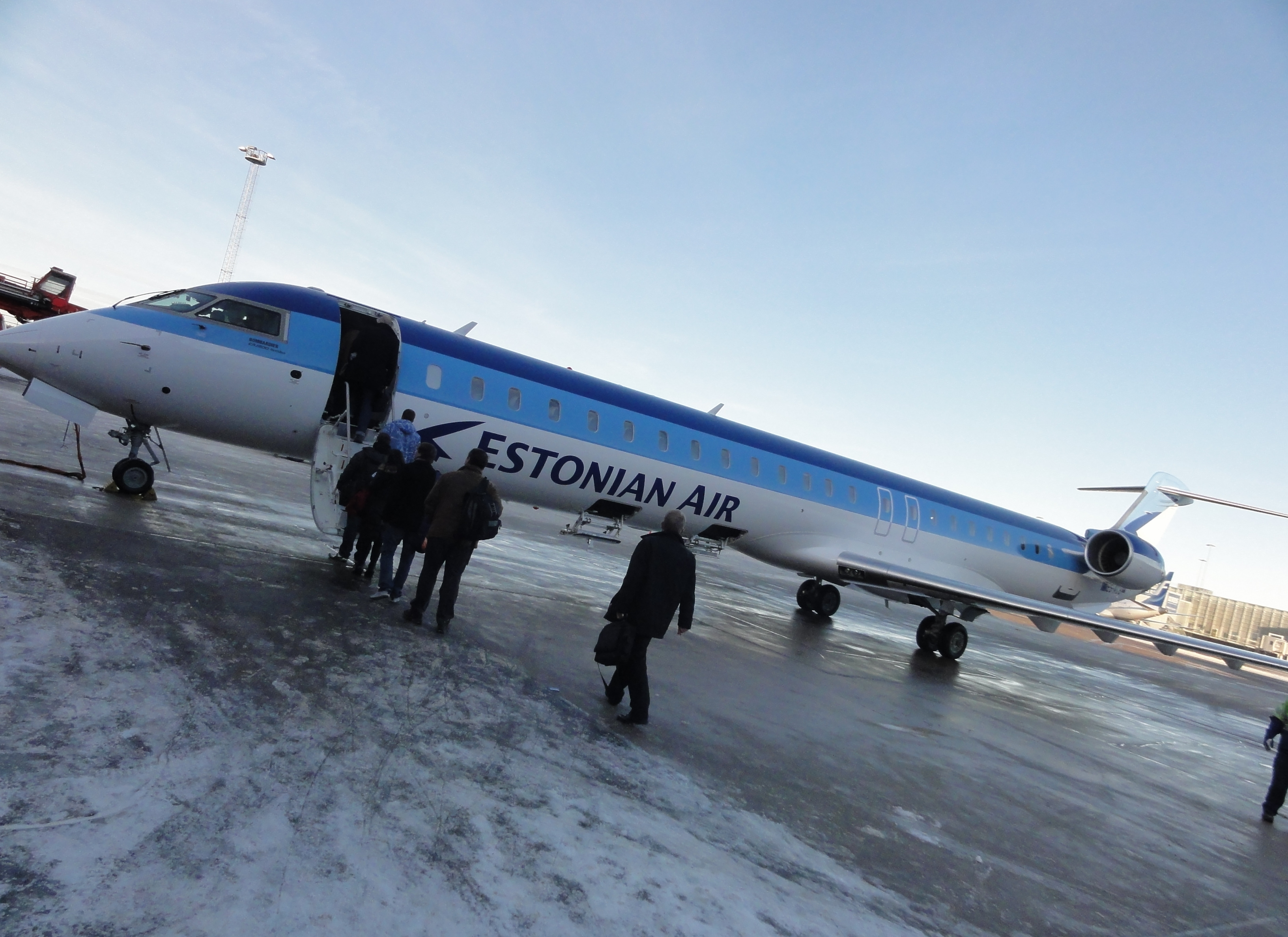 Estonian Air